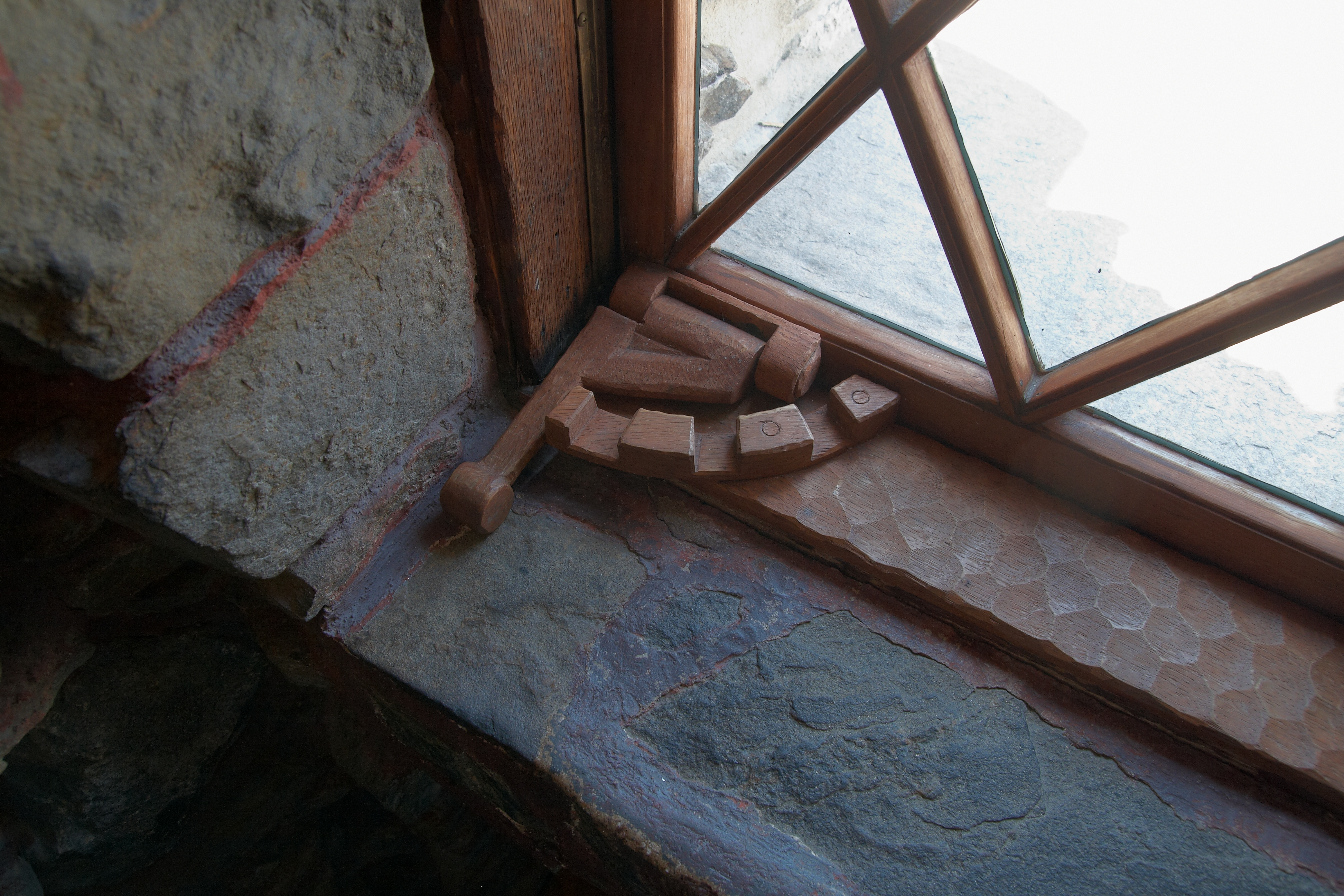 A window latch inside Gillette Castle.